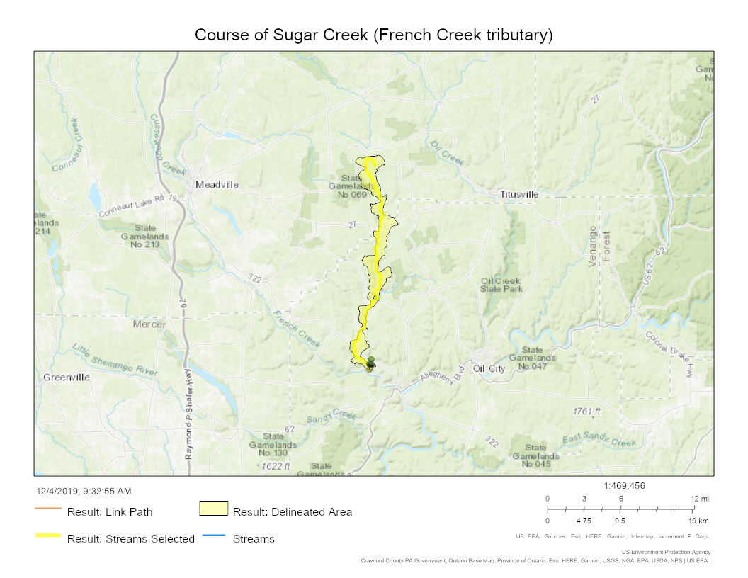 Map of the course of Sugar Creek (French Creek tributary) in Crawford and Venango Counties, Pennsylvania.